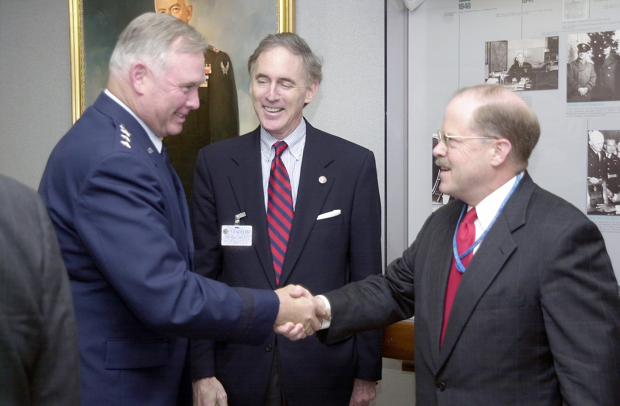 Air Force Chief of Staff General Michael E. Ryan congratulates Secretary of the Air Force F. Whitten Peters prior to the unveiling of Peters' official portrait during a ceremony at The Pentagon, Washington, D.C.